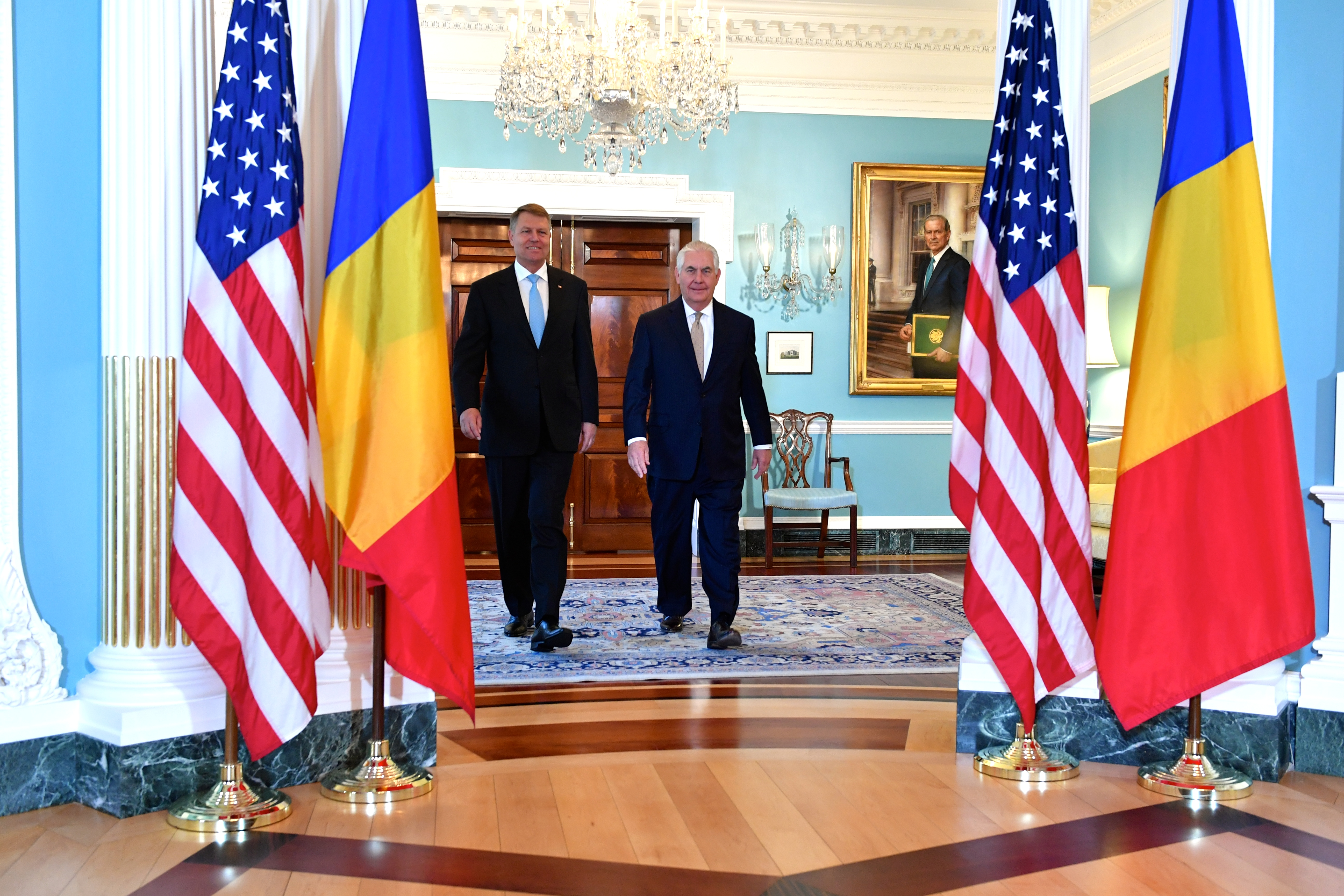 U.S. Secretary of State Rex Tillerson and Romanian President Klaus Werner Iohannis meet before reporters before their bilateral meeting at the U.S. Department of State in Washington, D.C., on June 9, 2017. [State Department Photo/ Public Domain]